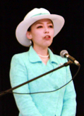 Princess Yōko speaking at the opening ceremony of the All Japan Dojo Junior Kendo Taikai at the Nippon Budokan in Chiyoda Ward, Tokyo on July 26, 2016